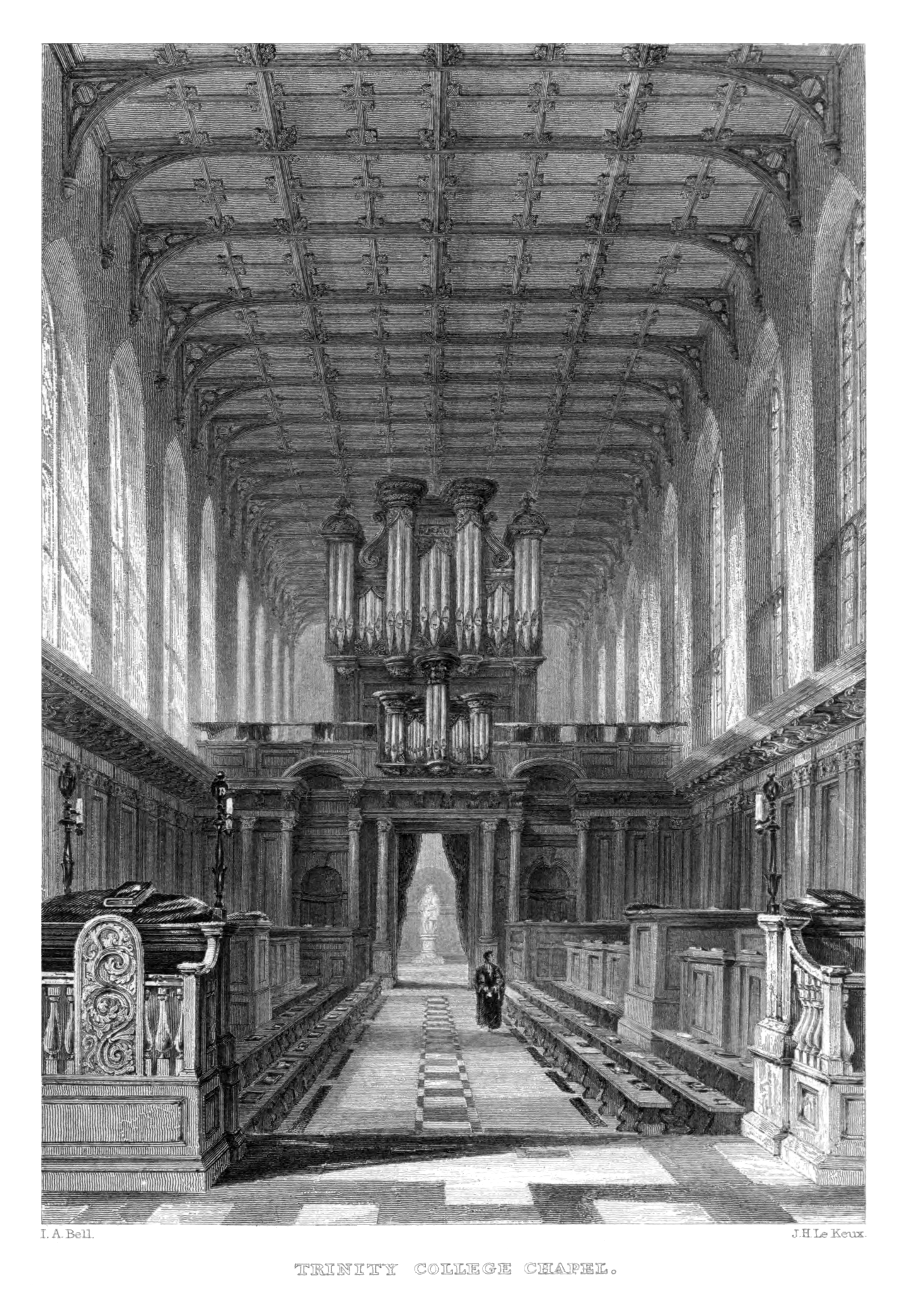 A view of the interior of the Chapel at Trinity College, Cambridge